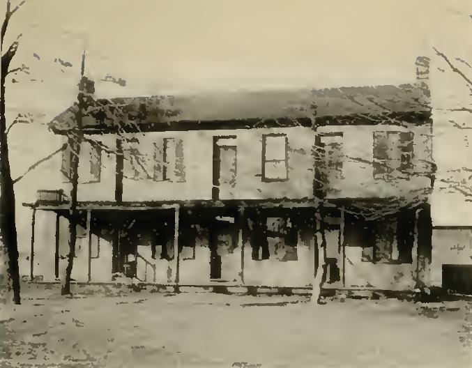 Front of the Pennsylvania House, located in Springfield, Ohio, United States, as it appeared in the late nineteenth or early twentieth centuries. Located at 1311 W. Main Street (the old National Road) and built in 1822, it is listed on the National Register of Historic Places.